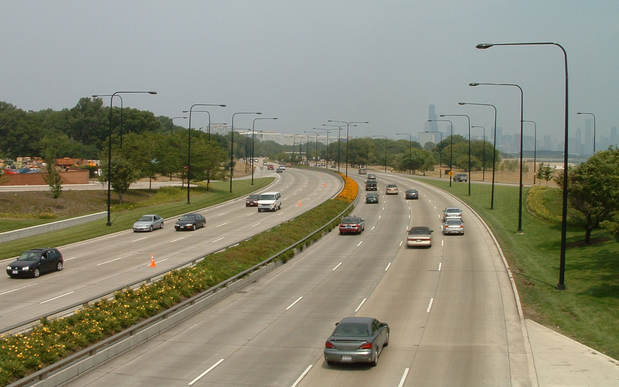 Lake Shore Drive, in Chicago, Illinois, looking north from the Oakwood Boulevard bridge. Photograph taken August 3, 2005 by Kelly Martin.